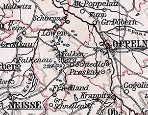 Detail from a map of Silesia.